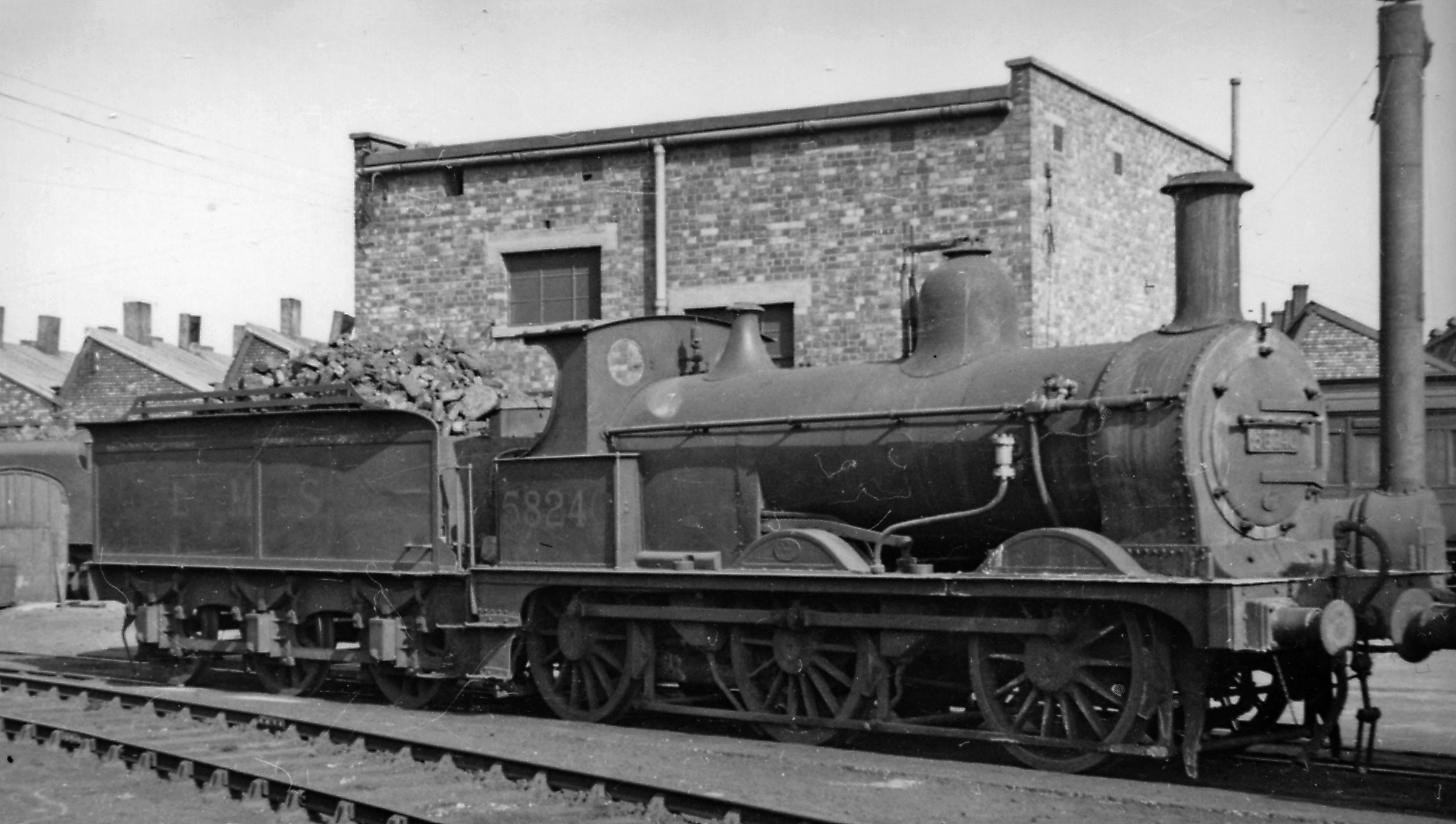 Ex-Midland Johnson 2F 0-6-0 at Nuneaton Locomotive Depot. No. 58240 (formerly LMS No. 3161) probably did not turn a wheel after this photograph, as it was withdrawn in 5/53. It was one of the Johnson 4'11" 2F 0-6-0s in original form with round-top boiler - see SK4289 : Ex-Midland 2F 0-6-0 at Canklow Locomotive Depot, Rotherham.